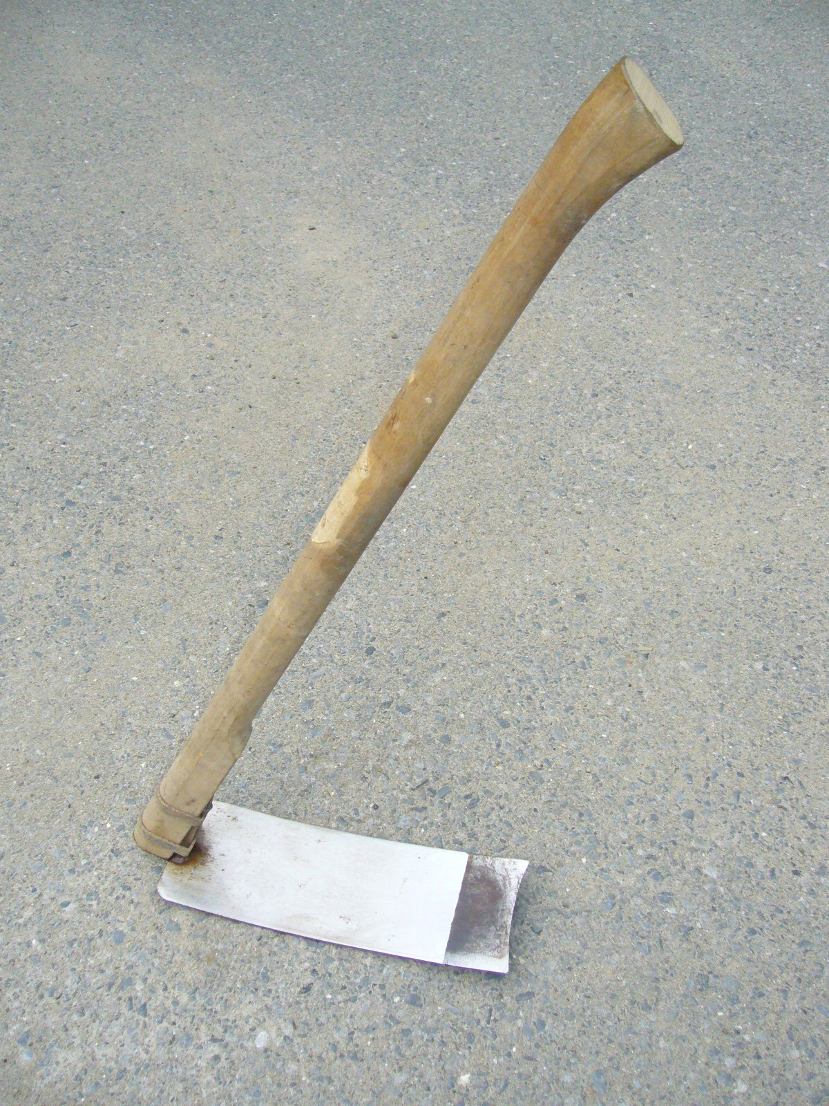 Japanese hoe, kuwa, katori-city, Japan